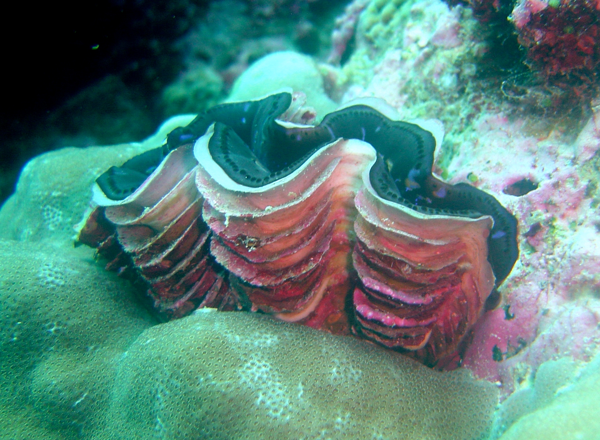 Fluted giant clam (Tridacna squamosa) Image ID: reef1426, NOAA's Coral Kingdom Collection Location: Pohnpei